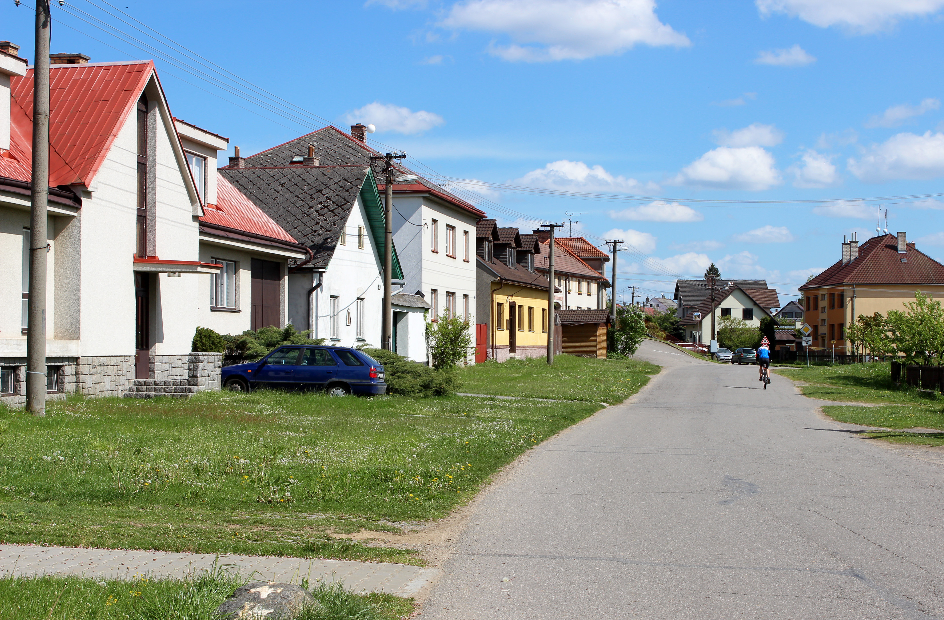 Upper street in Velká Losenice, Czech Republic